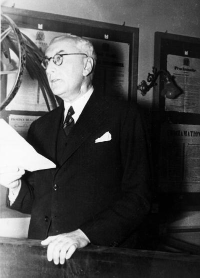 Nicolaas Wilhelmus Posthumus (1880–1960), economist, professor and director of Brill Publishers and International Institute of Social History in Amsterdam (The Netherlands). Opening speech at the Nationaal Instituut voor Sociale Geschiedenis: Brussel, Regentlaan 23 (La Prévoyance Sociale), 18 Febr. 1939.